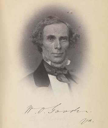 Half-length portrait of William O. Goode